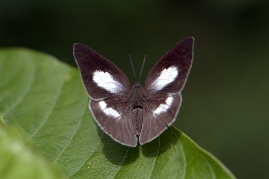 Angled Sunbeam Female (Curetis acuta)